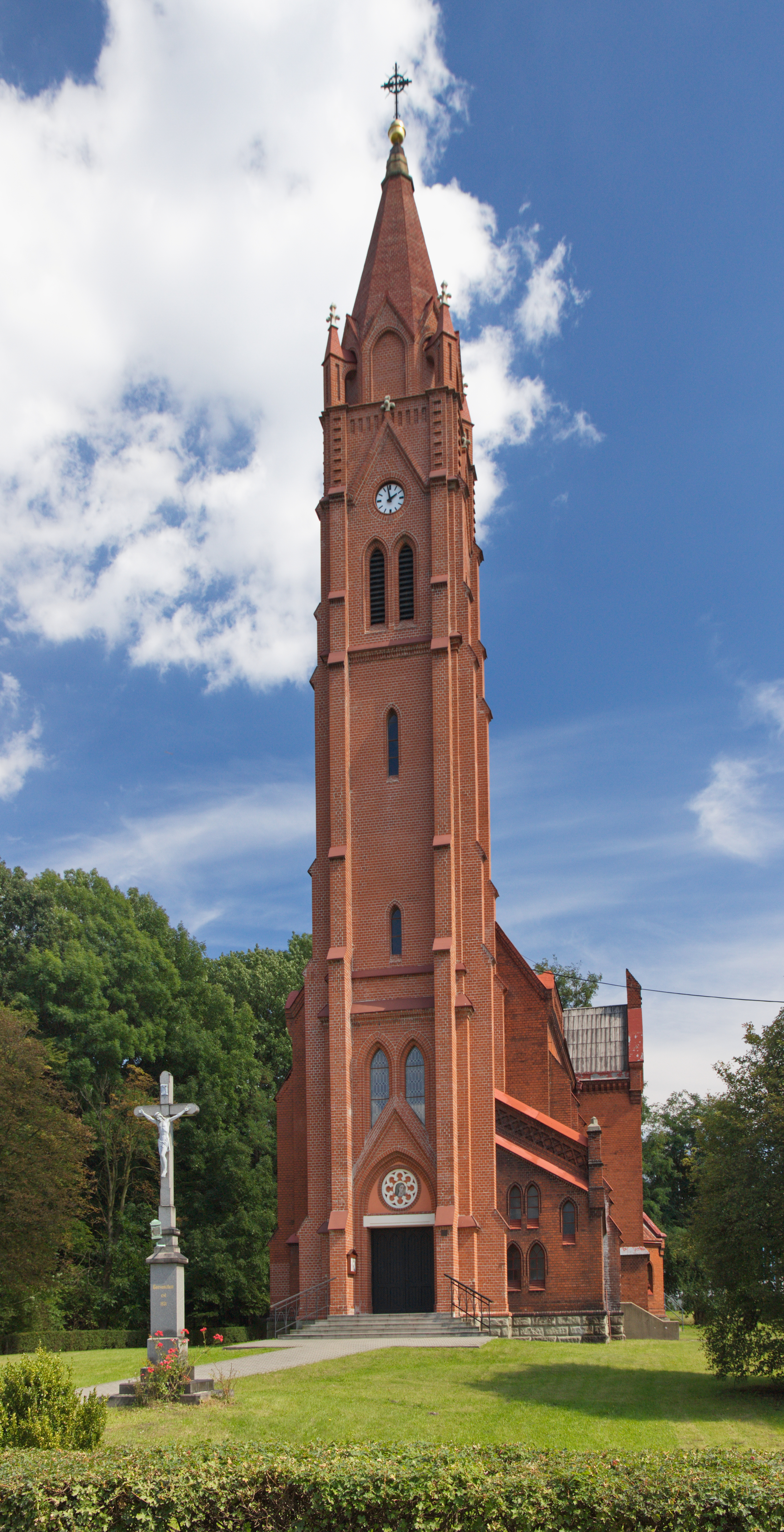 Church of Our Lady of Sorrows, Skřečoň, Bohumín. Moravian-Silesian Region, Czech Republic.